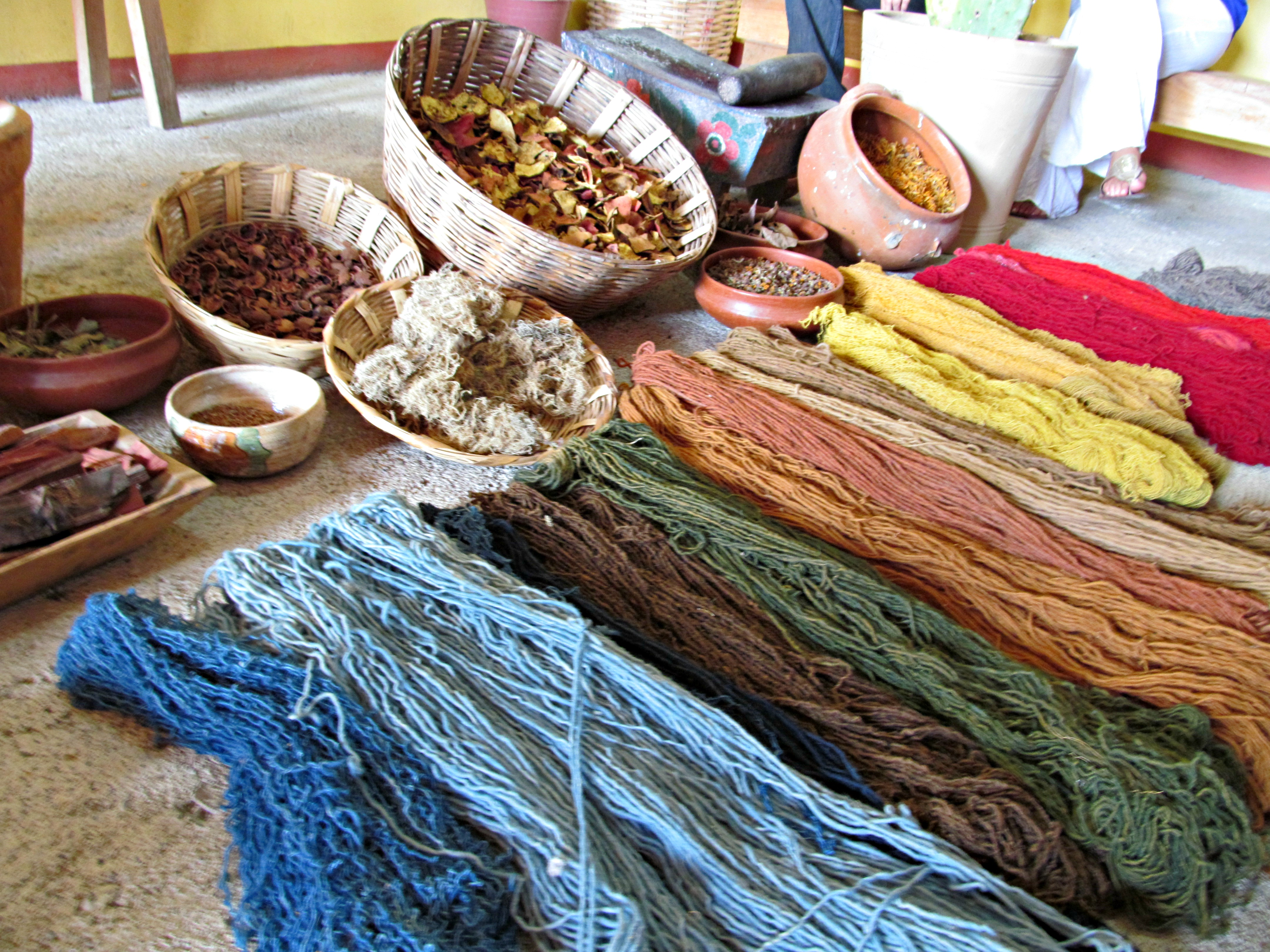 Wool spun and dyed with fruits and insects (Mexico)